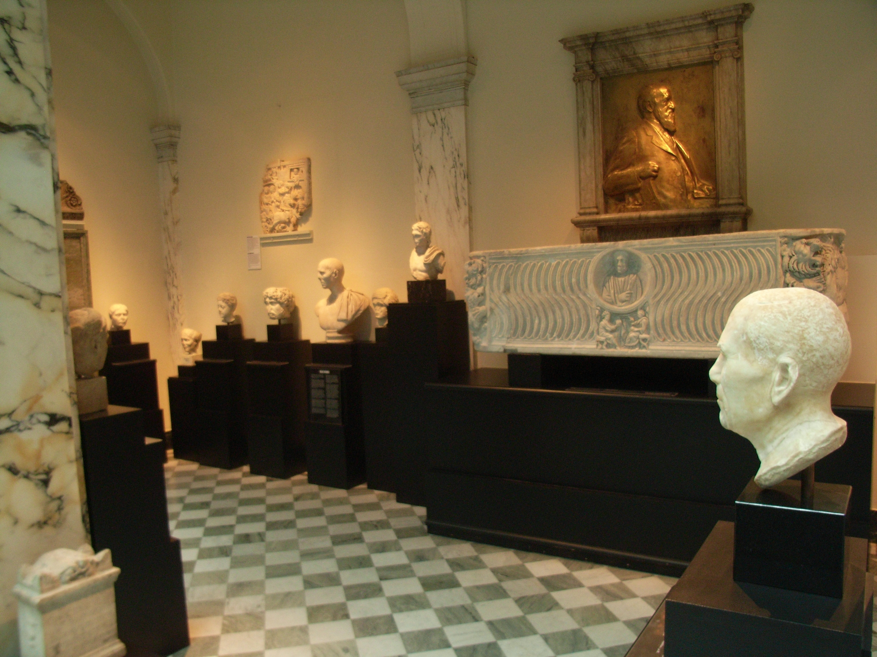 Gallery